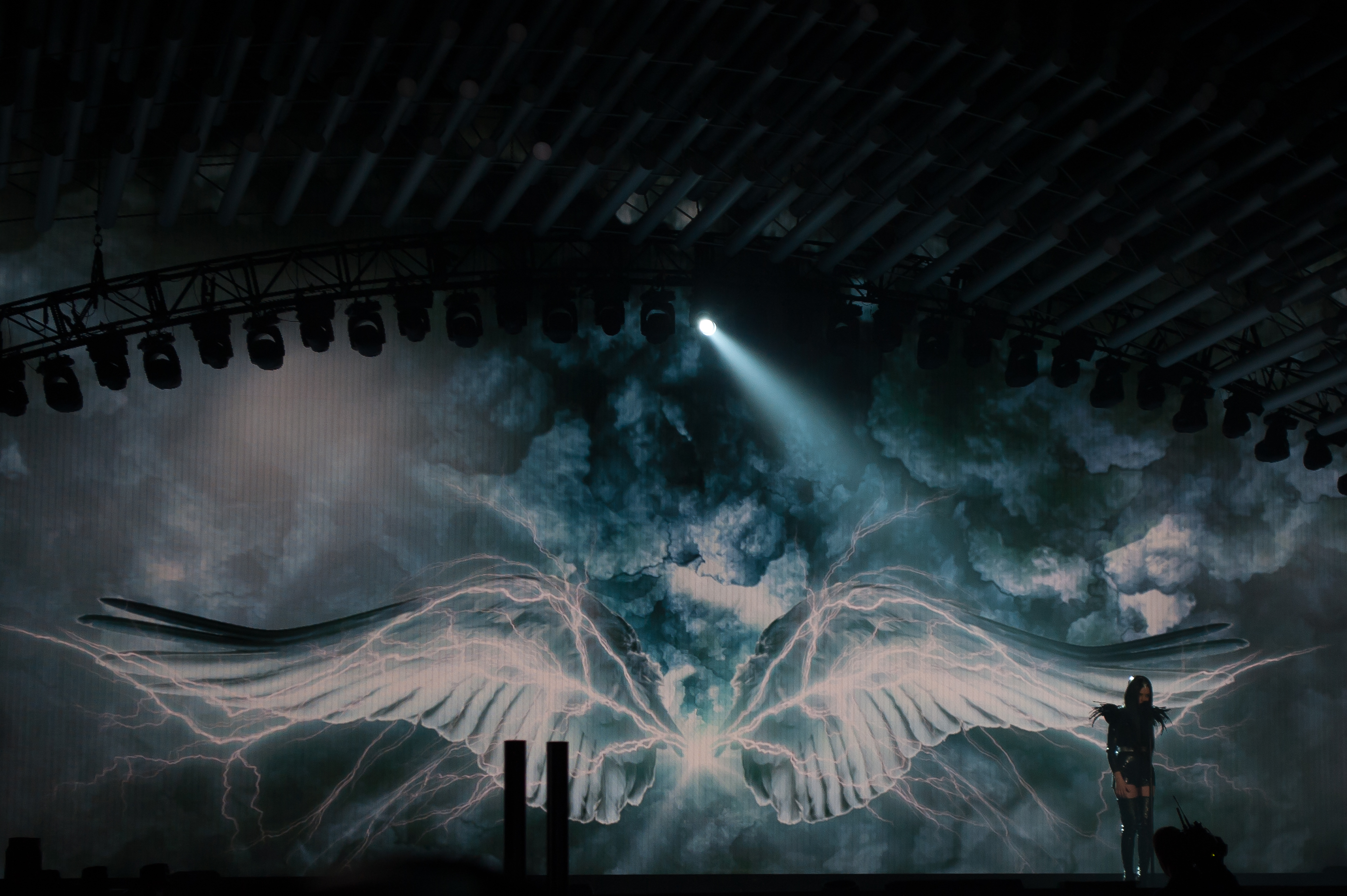 Eurovision Song Contest Vienna 2015: Nina Sublatti, Georgia